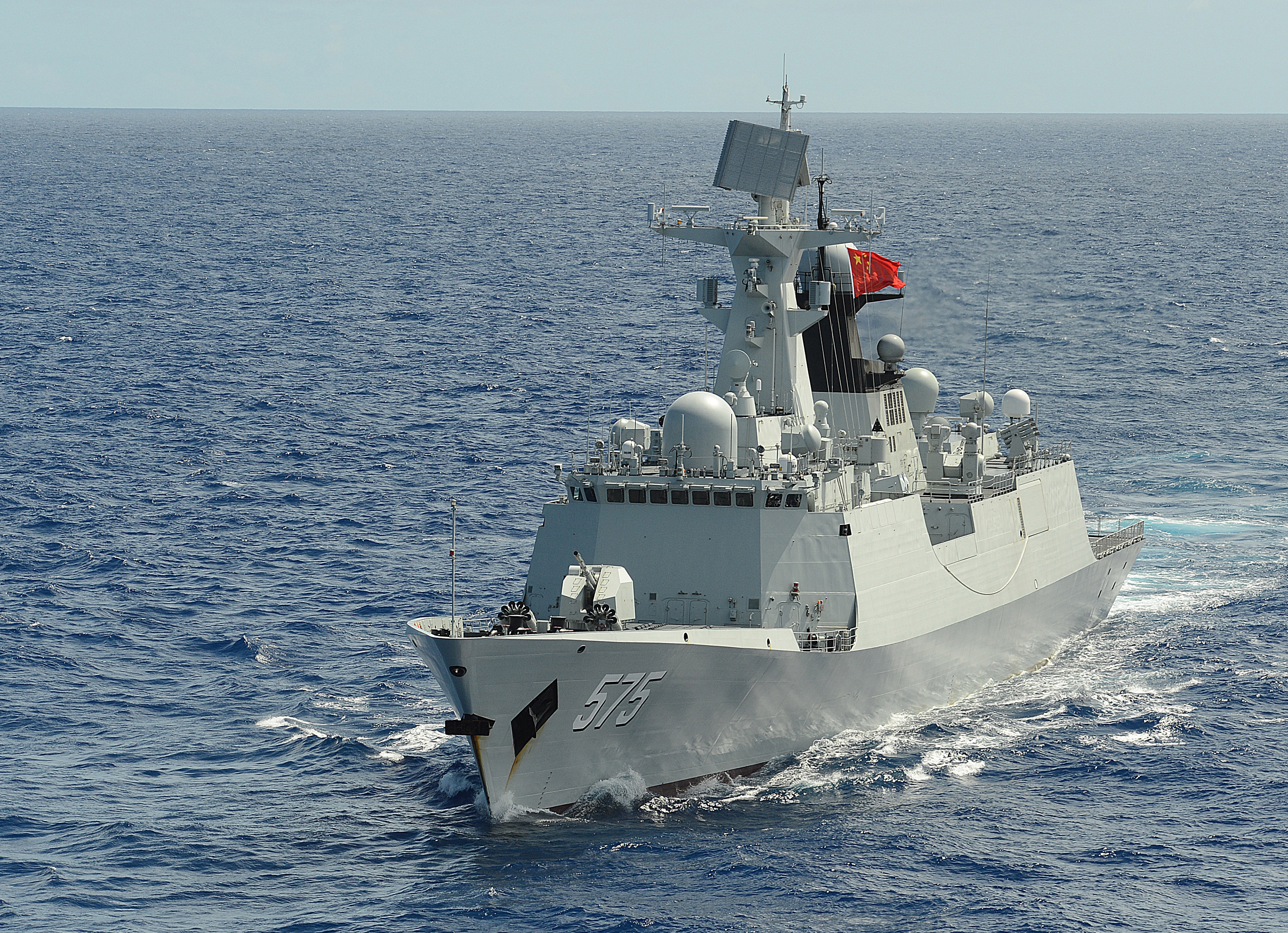 People's Republic of China, People's Liberation Army (Navy) frigate PLA(N) Yueyang (FF 575) steams in formation with 42 other ships and submarines representing 15 international partner nations during Rim of the Pacific (RIMPAC) Exercise 2014.